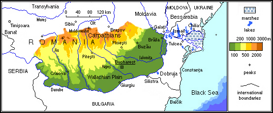 Valachia Physical map